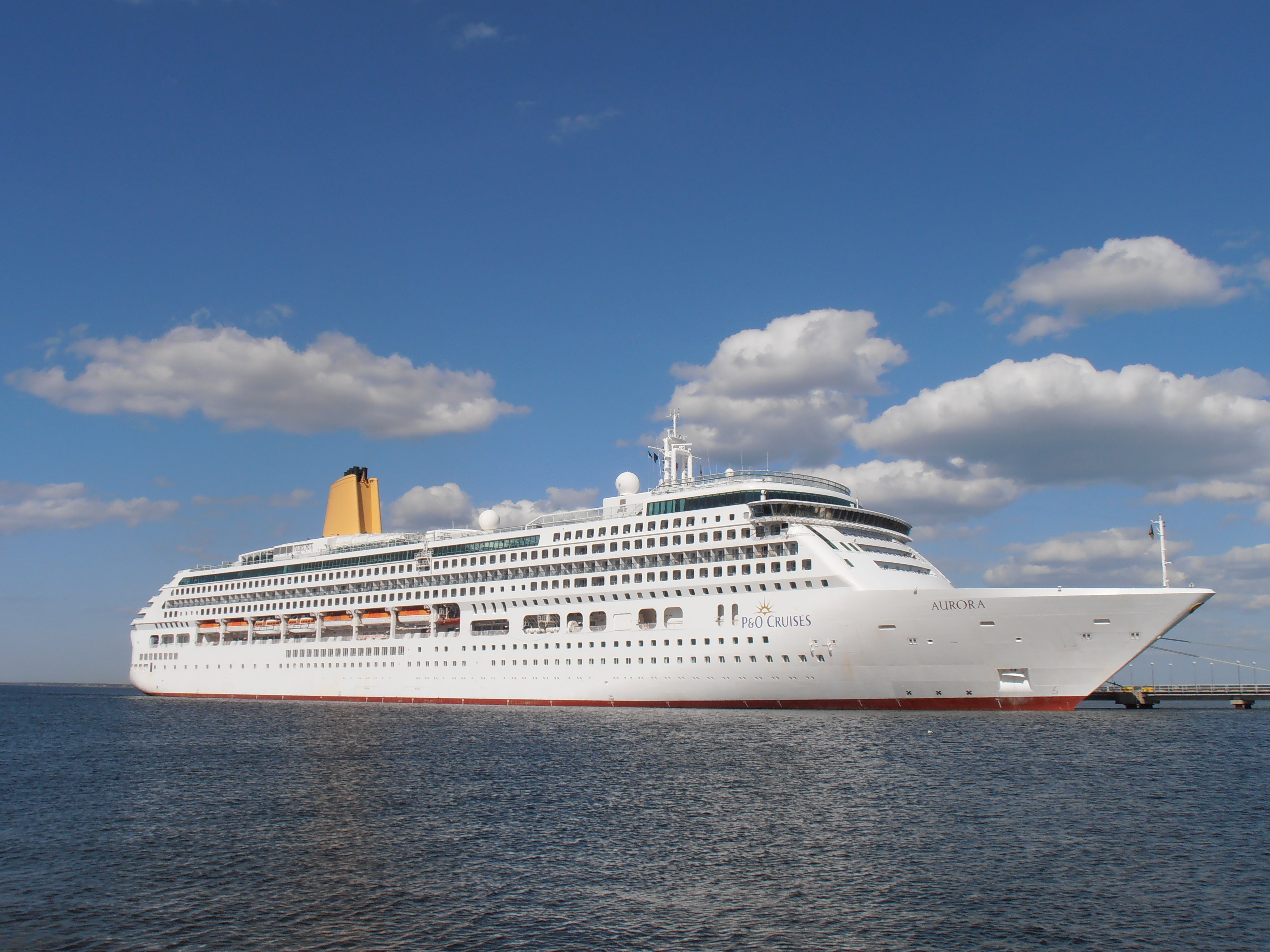 Aurora moored in Port of Tallinn 9 May 2012